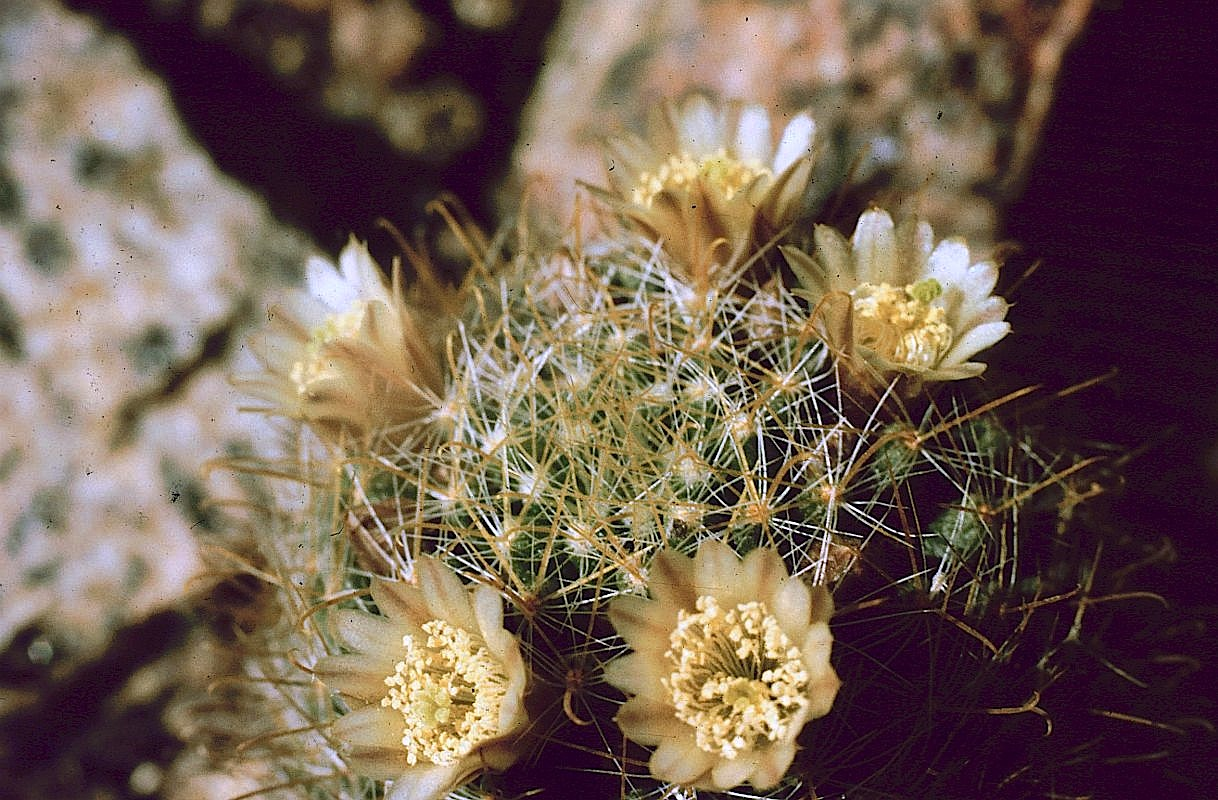 Mammillaria picta subsp. viereckii